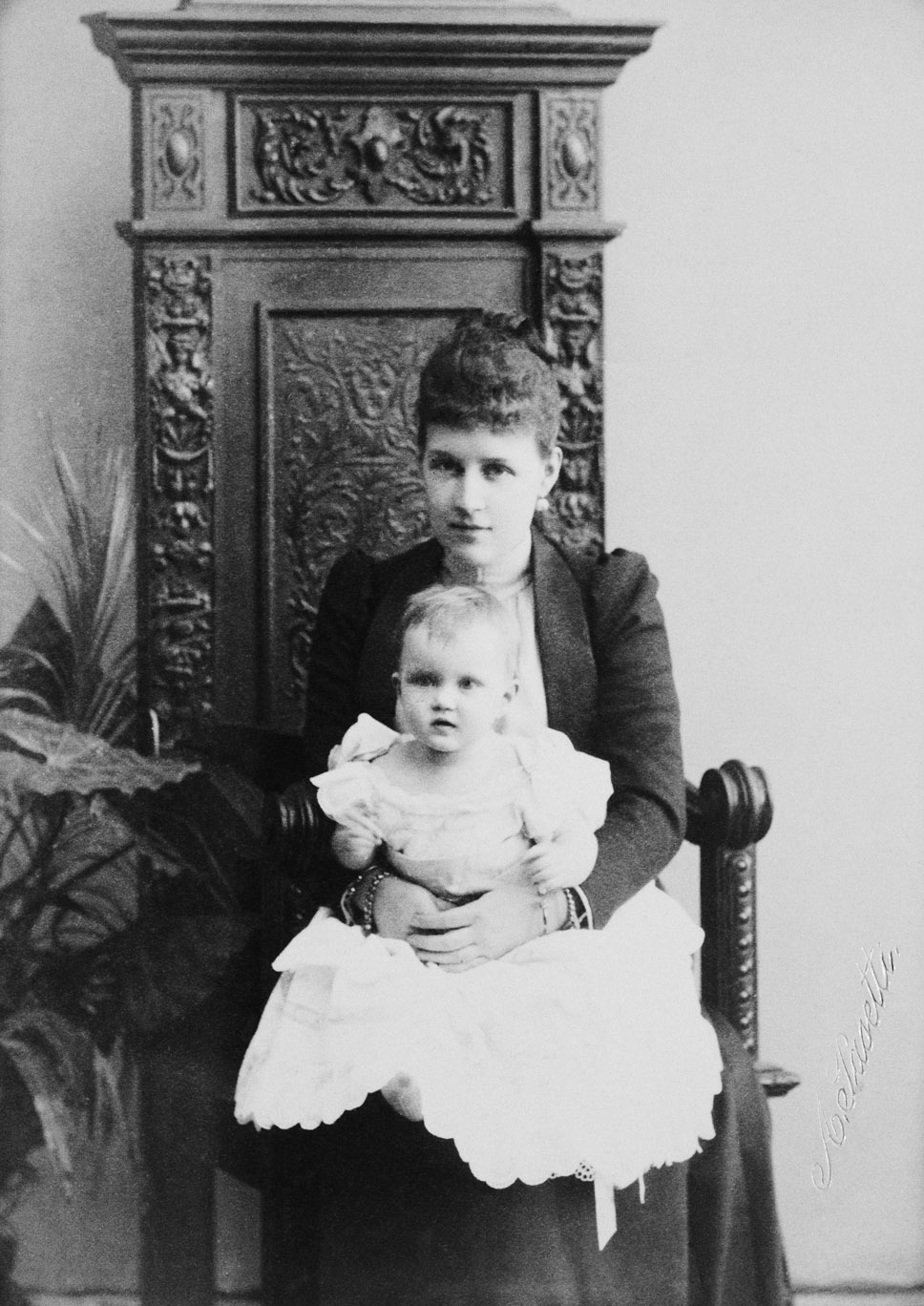 Grand Duchess Alexandra Georgievna and Grand Duchess Maria Pavlovna